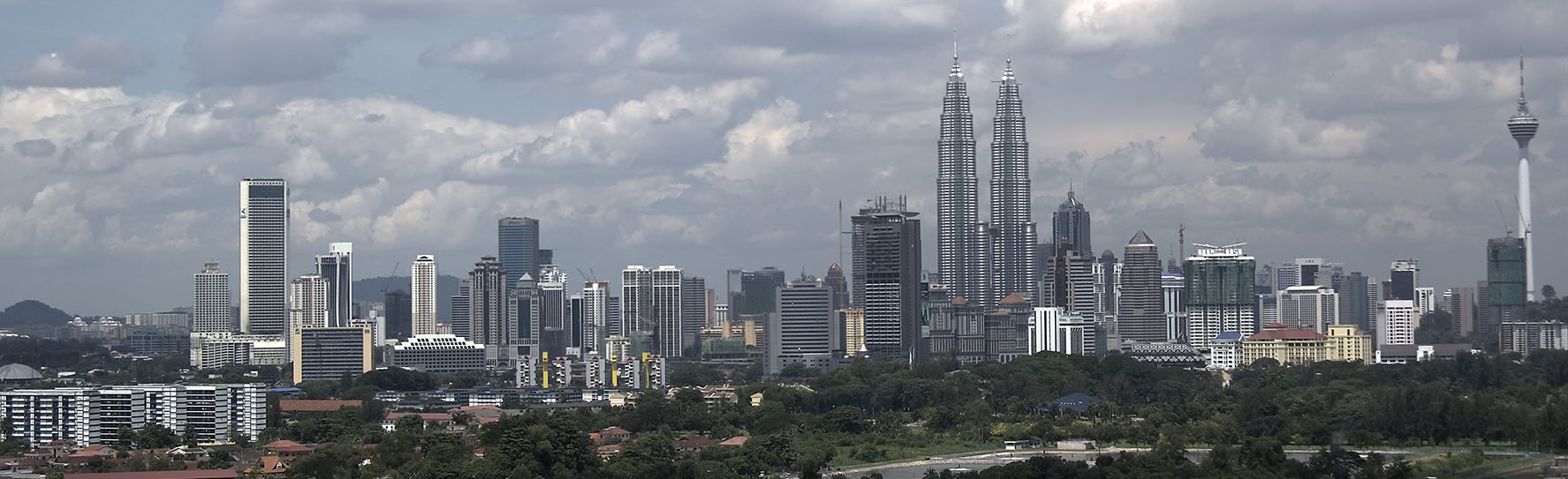 A perspective of Kuala Lumpur from Setapak showing the skyscrapers that dominate the city center.